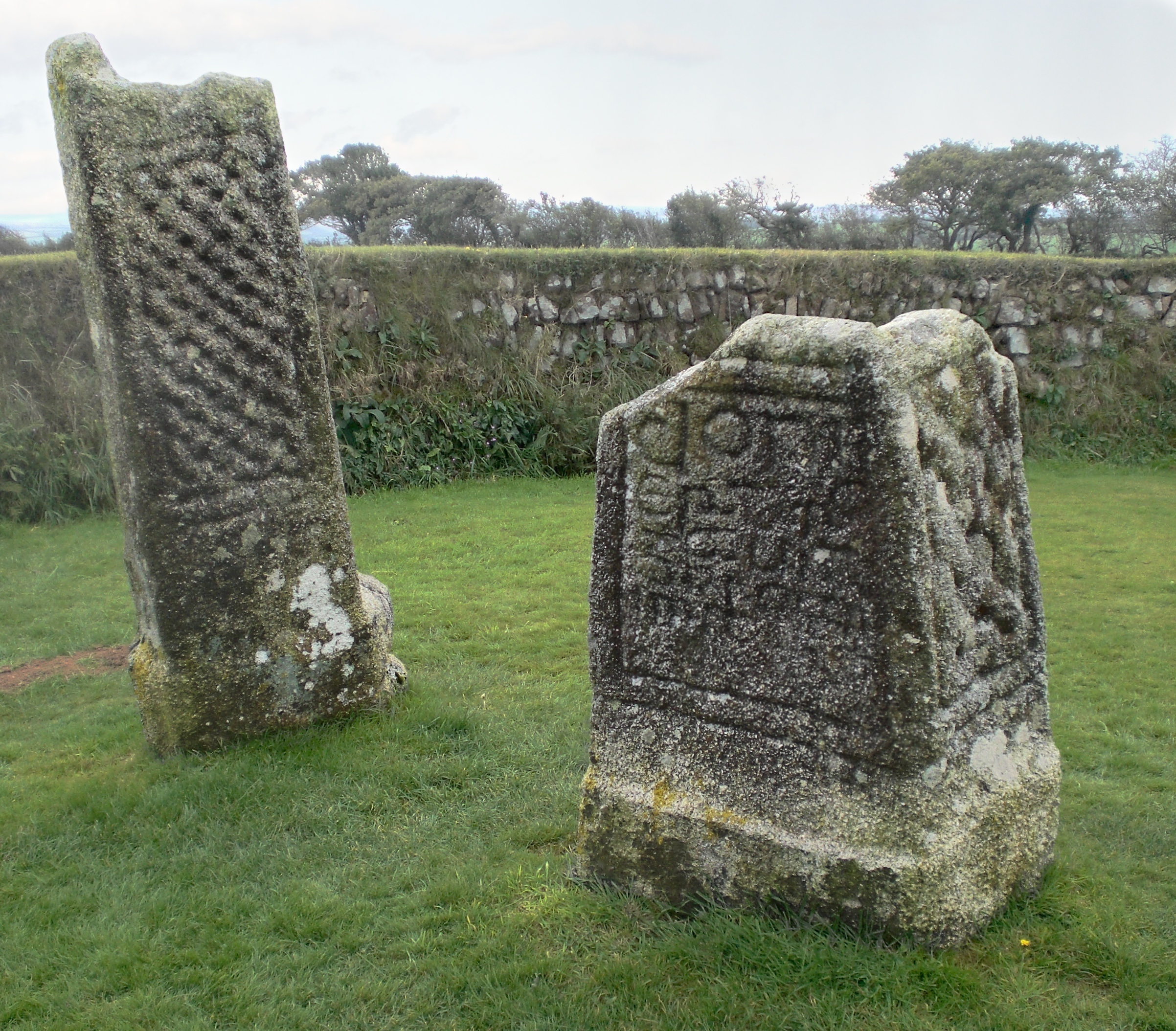 King Doniert's Stone site, near St. Cleer in Cornwall, UK. The stone of the right is the actual "Doniert's Stone" and bears an inscription which tells that King Doniert had the cross built for the good of his soul[1]. The stone on the left is called the "Other Half Stone" [2].